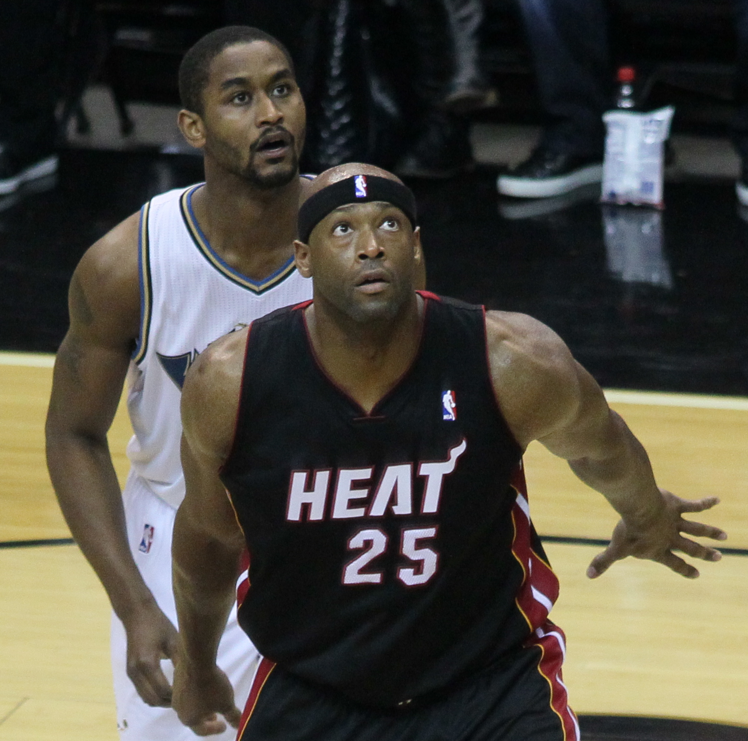 Washington Wizards v/s Miami Heat December 18, 2010